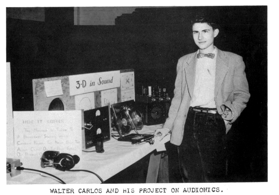 Walter (Wendy) Carlos demonstrating stereo sound for a high school science project.